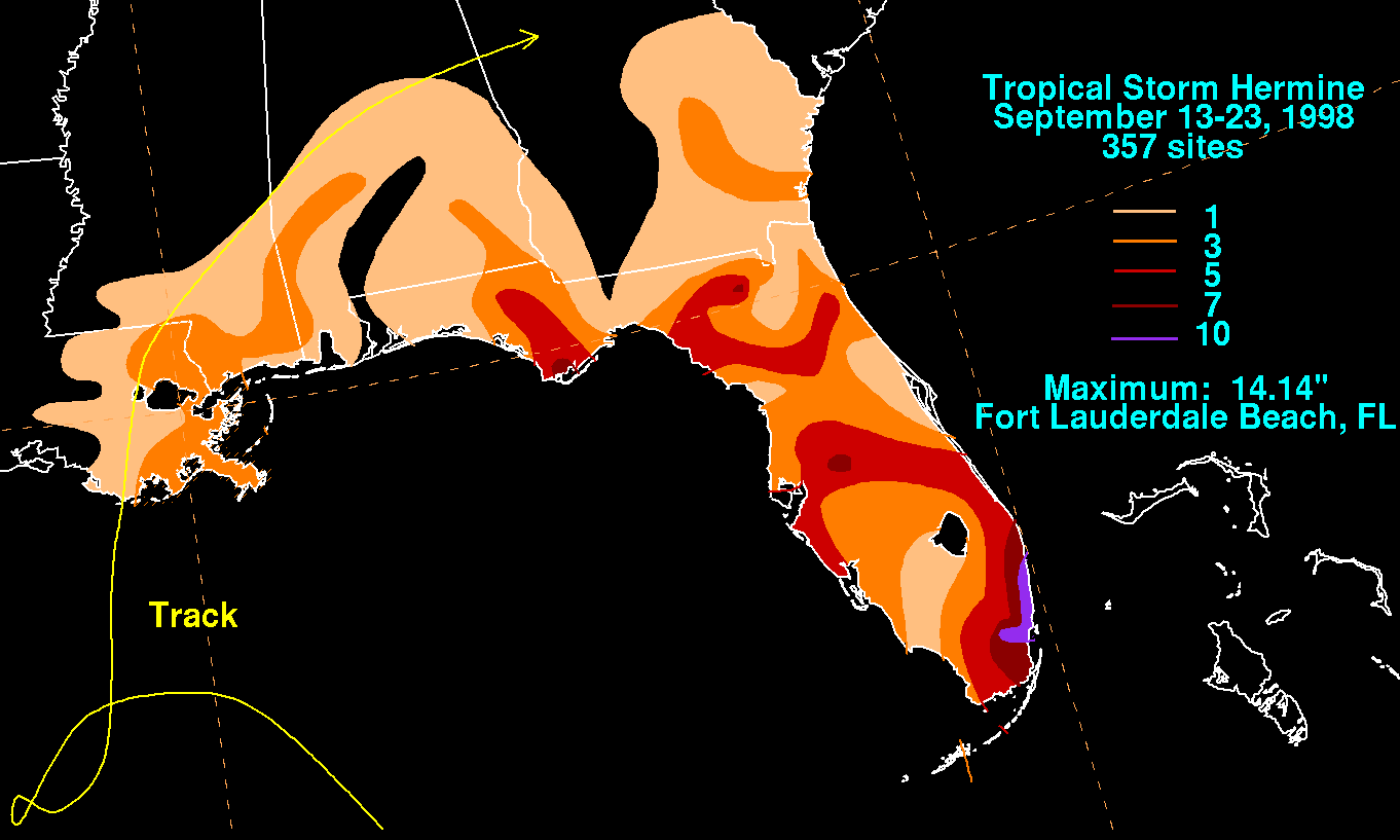 Rainfall produced by Tropical Storm Hermine during September 1998.